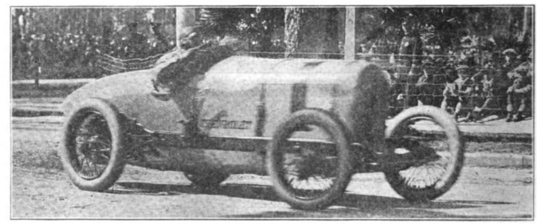 Chevrolet Special driven by Cliff Durant in 1919 Santa Monica Race. Durant won the race and his race team partner Eddie Hearne placed second.